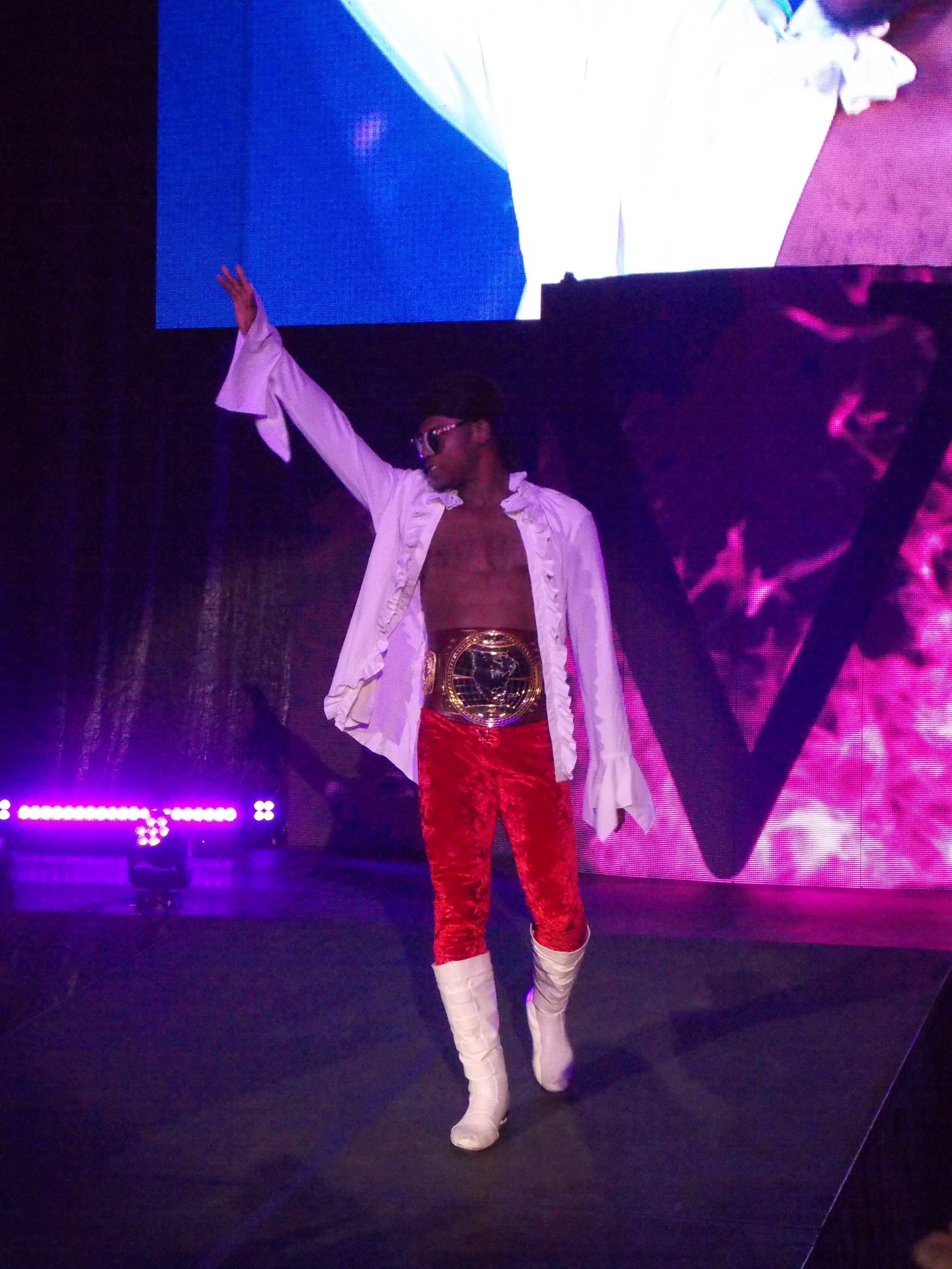 Velveteen Dream at an NXT Live Event in Omaha, Nebraska, USA on Thursday, April 25, 2019